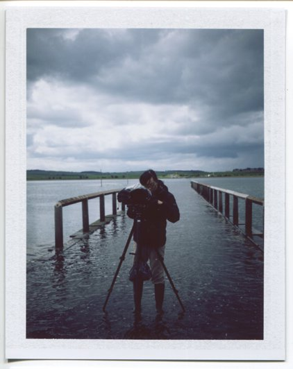 Artist Suki Chan on a shoot during Still Point